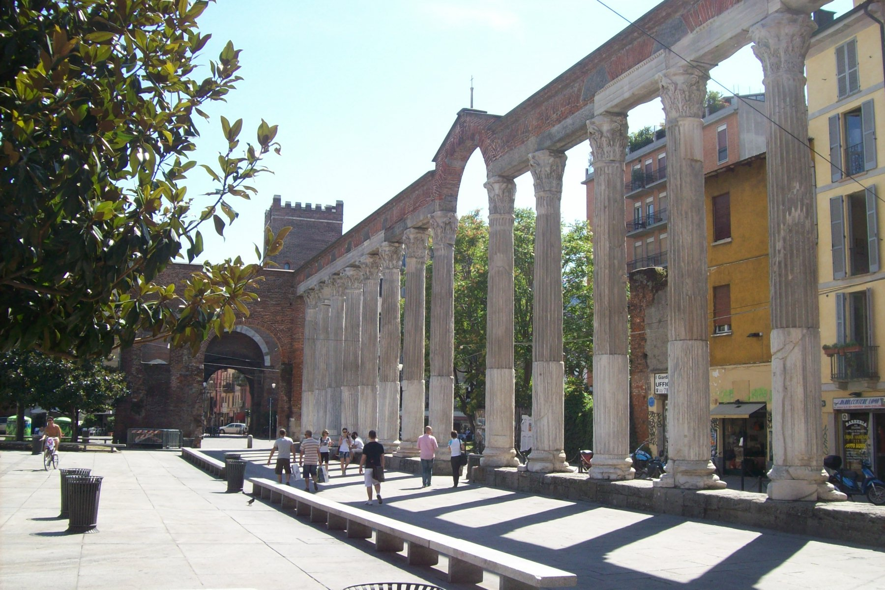 Colonne di san lorenzo